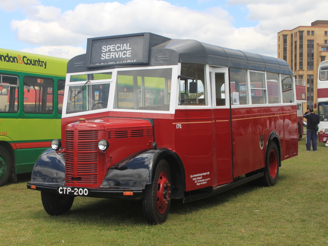 Restored Portsmouth Corporation 'utility' Bedford OWB bus number 170 (regsitration CTP200) at the Southdown centenary rally in Southsea.